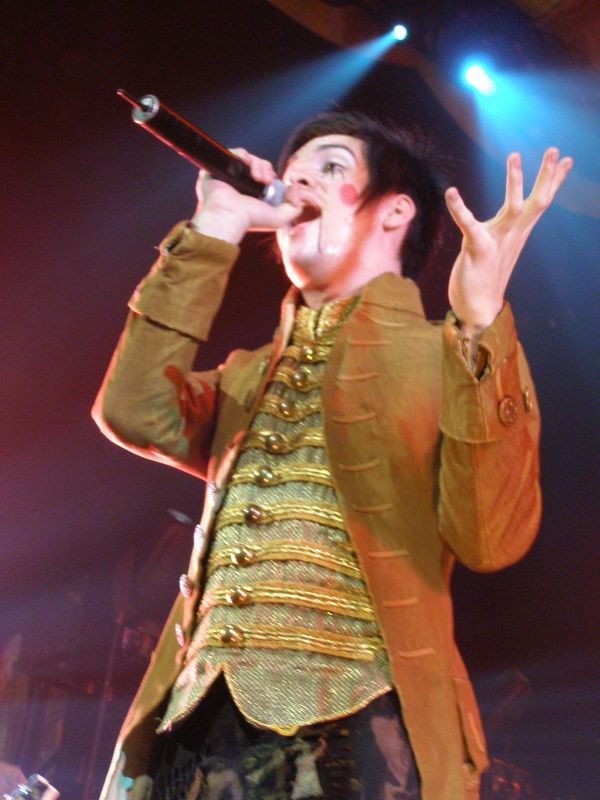 Brendon Urie, performing with his band, Panic at the Disco